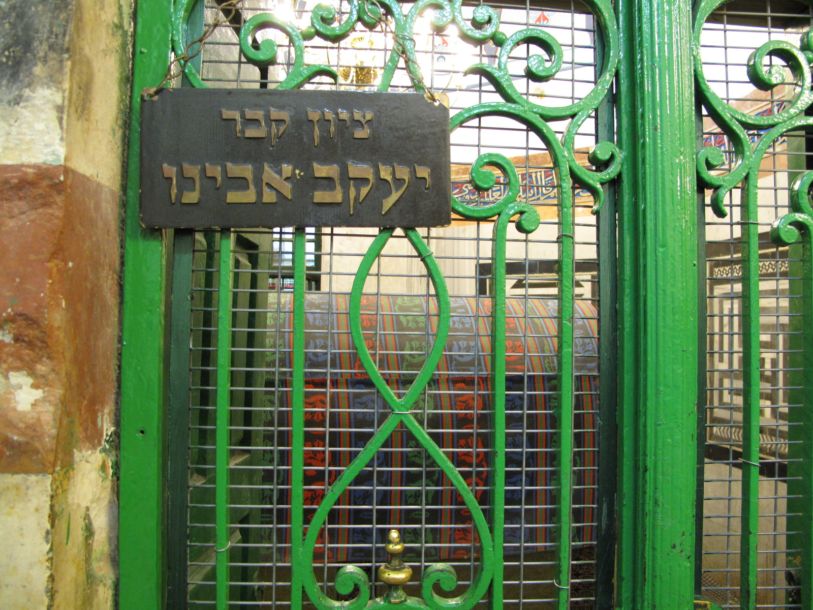 Cenotaph of Jacob Photo taken by myself in the Cave of the Patriarchs (Hebron) on October 25, 2010